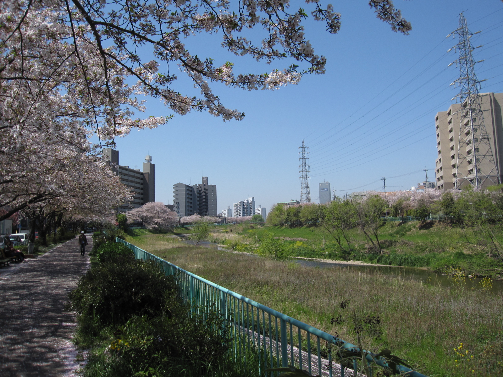 River that flows through Hara in Tenpaku ward, Nagoya, central Japan. Cherry trees bloom in spring.